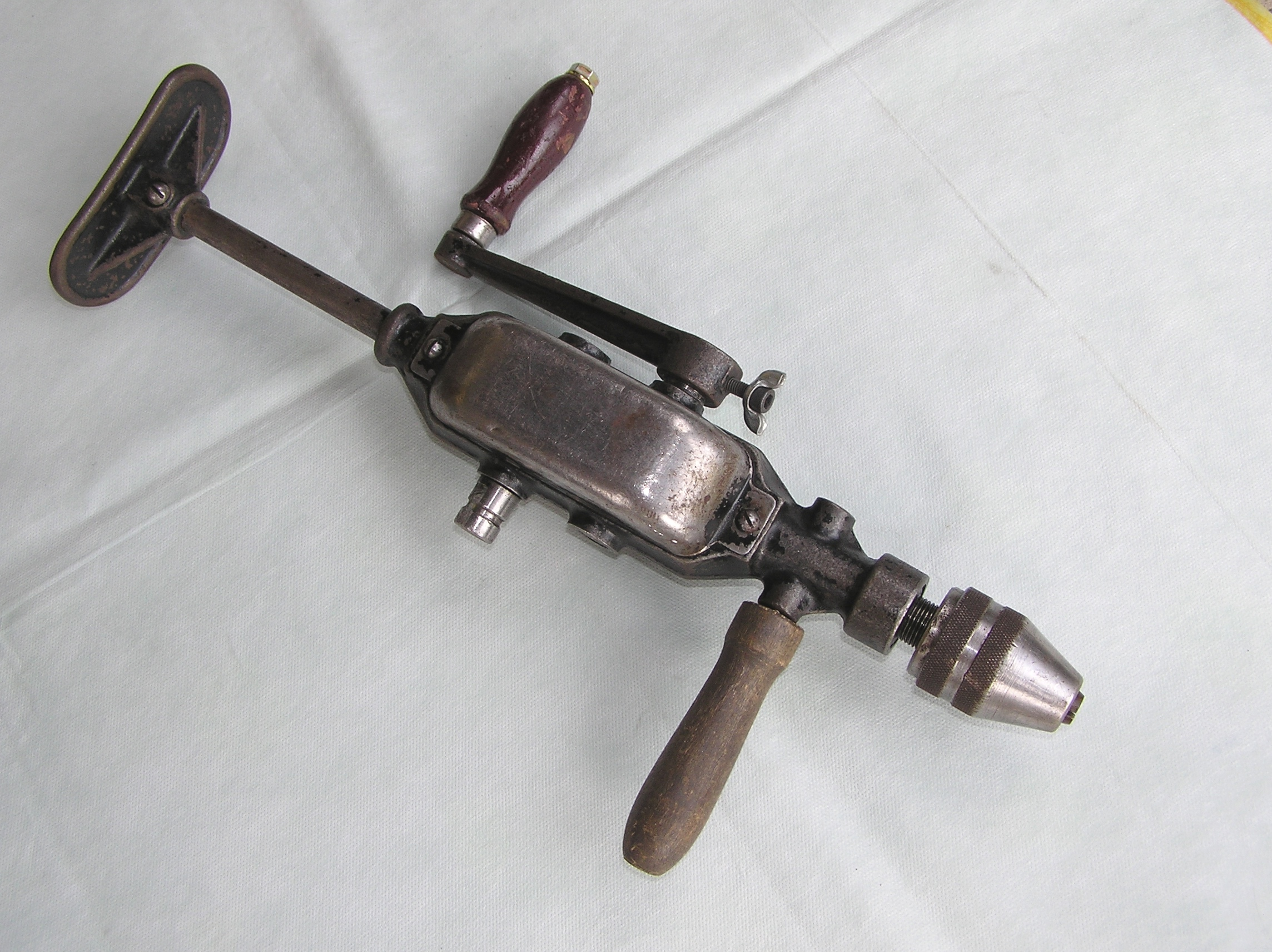 Manual drilling machine with two speeds